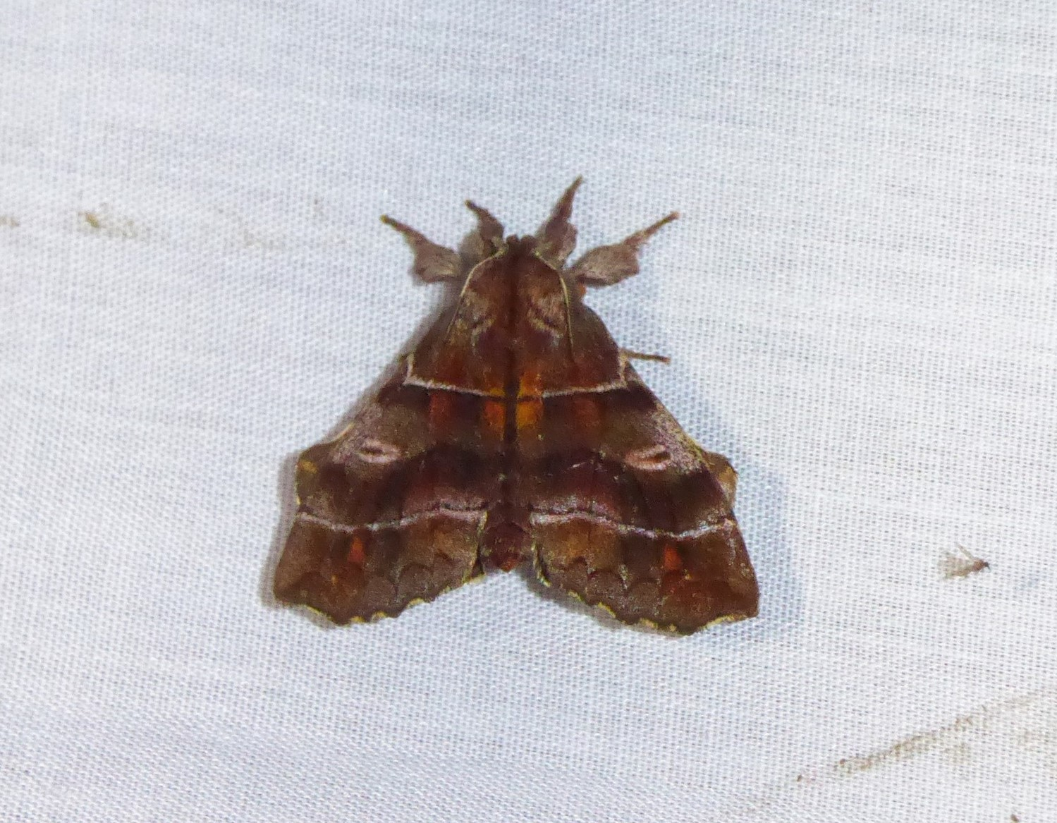 Zanola spp. Genus of insects.